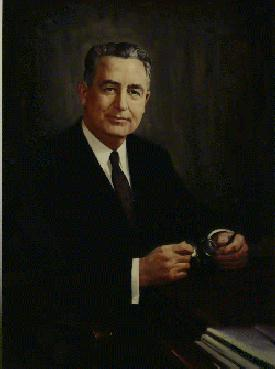 Martin Patrick Durkin Upload Source - U.S. Department of Labor Biography evrik (Martin Patrick Durkin)